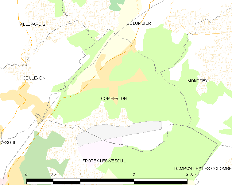 Map of French municipality